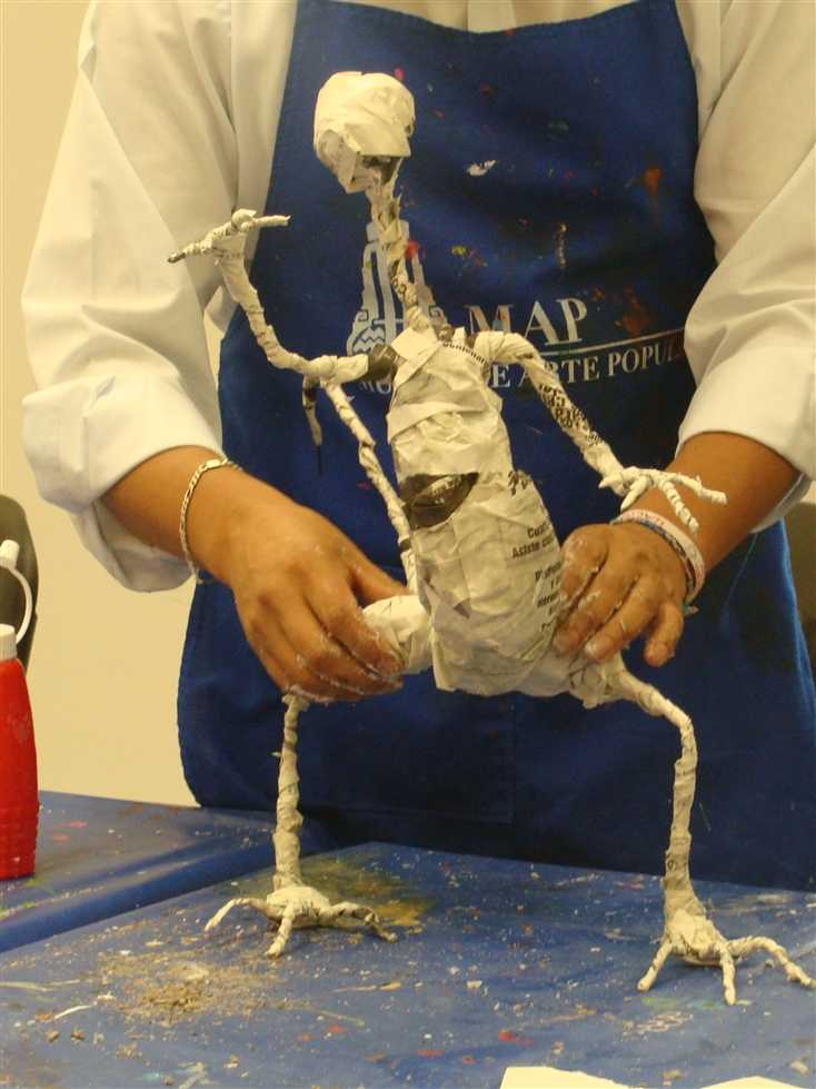 Work in progress at a workshop to create alebrijes at the Museo de Arte Popular